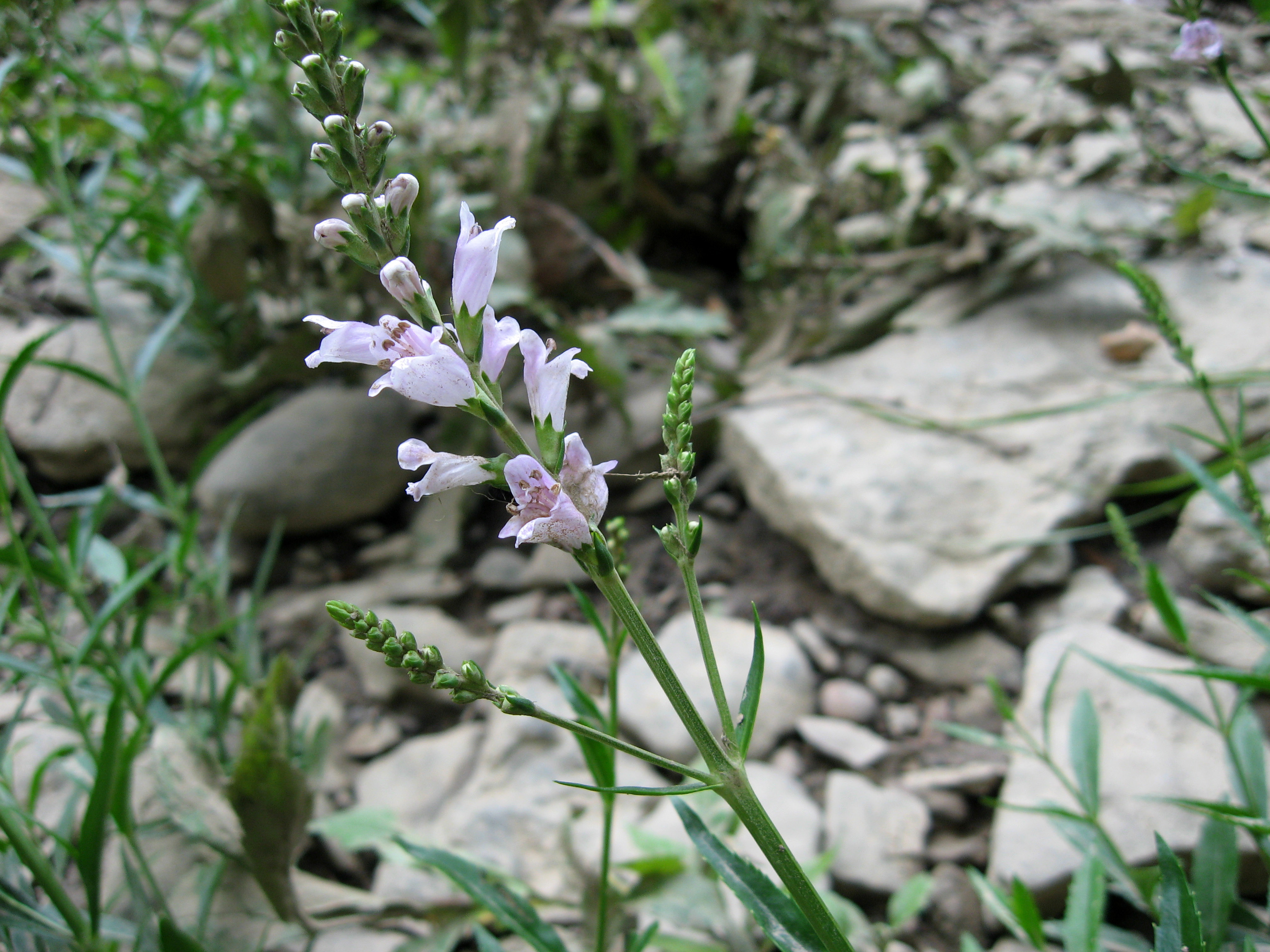 Physostegia virginiana ssp. virginiana. Limestone bar of the Licking River at Quiet Trails, Harrison County, Kentucky.